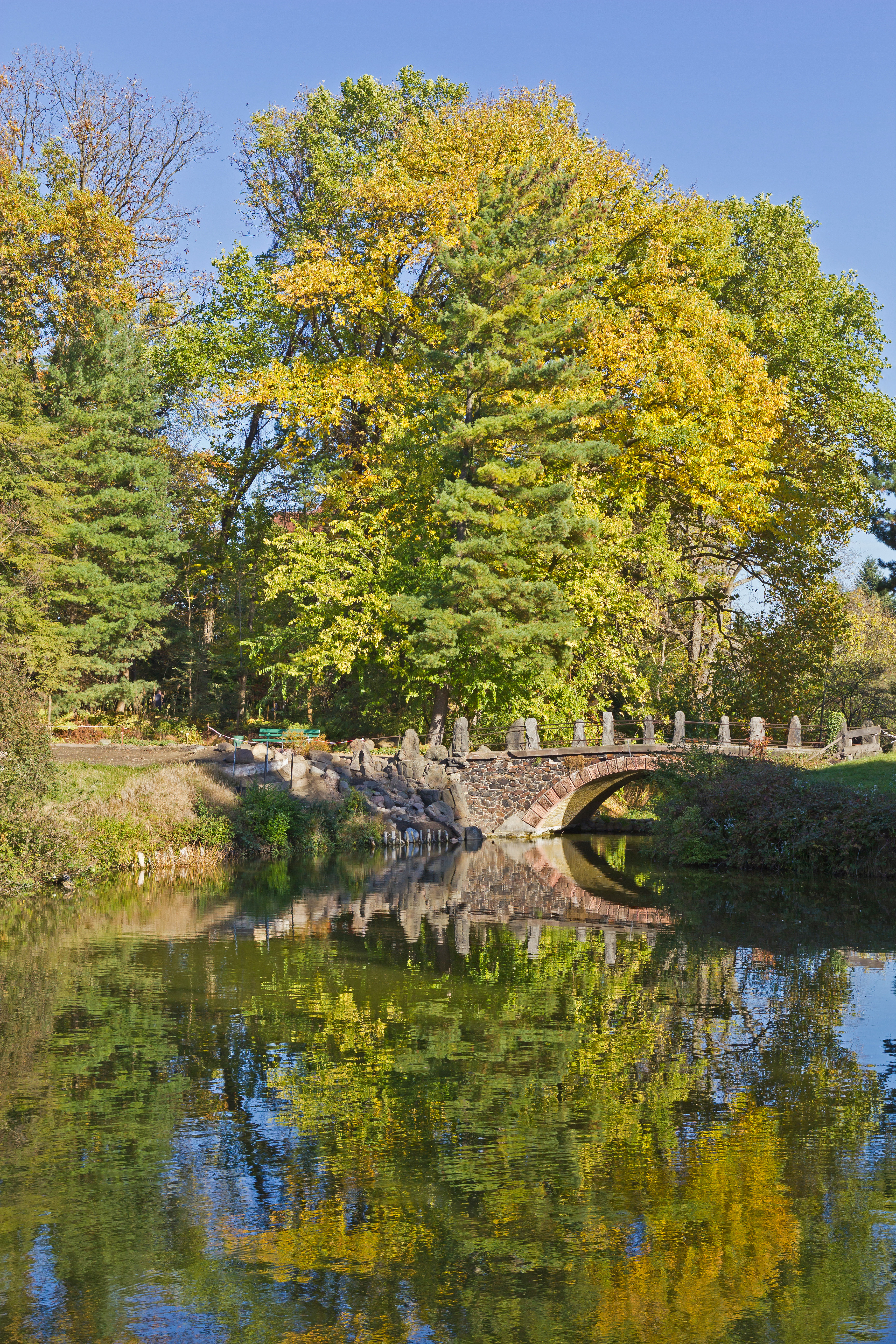 Berlin-Dahlem Botanical Garden in autumn 2014 / one of the ponds, with footbridge